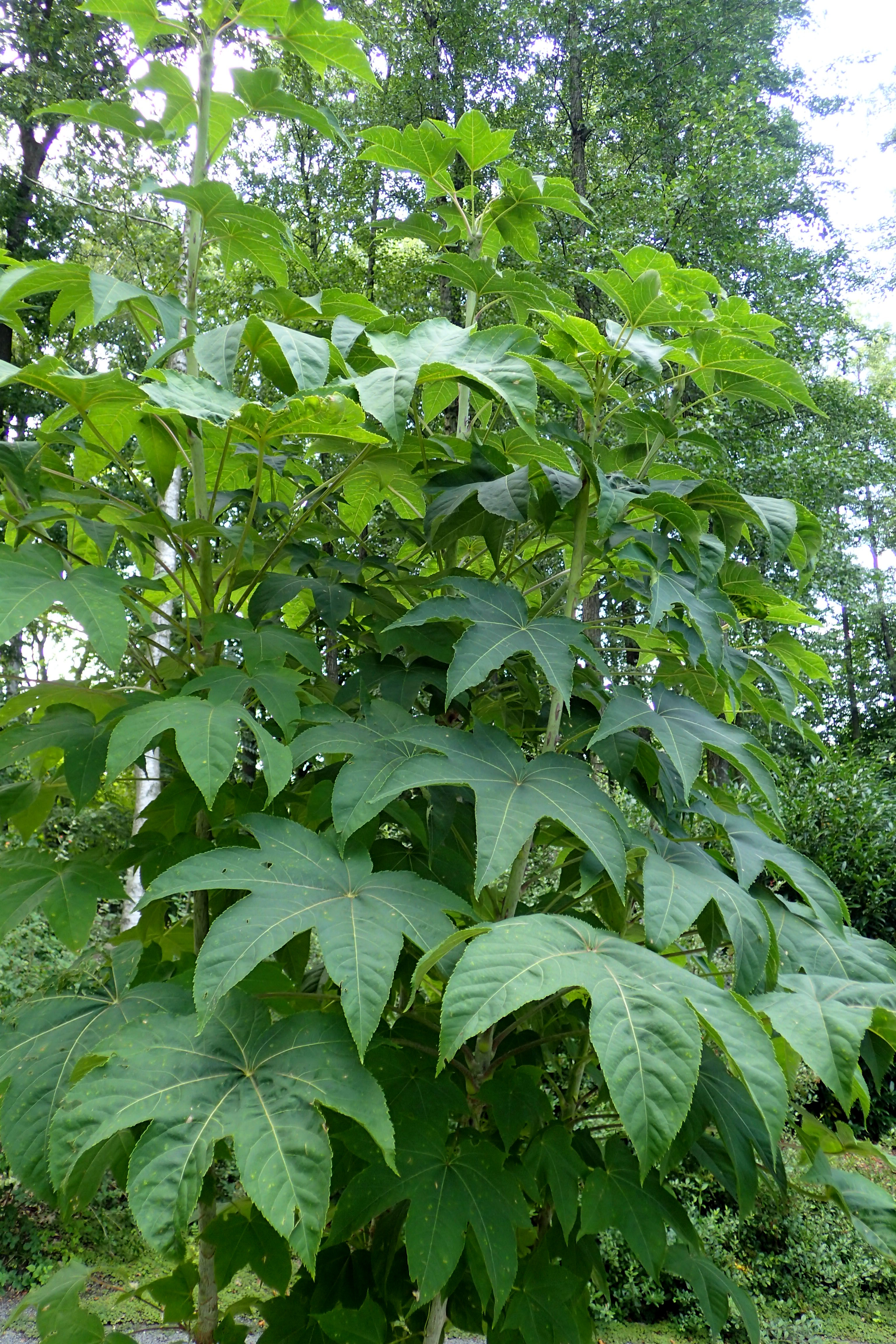 Kalopanax septemlobus at Botanical Garden in Zielona Góra